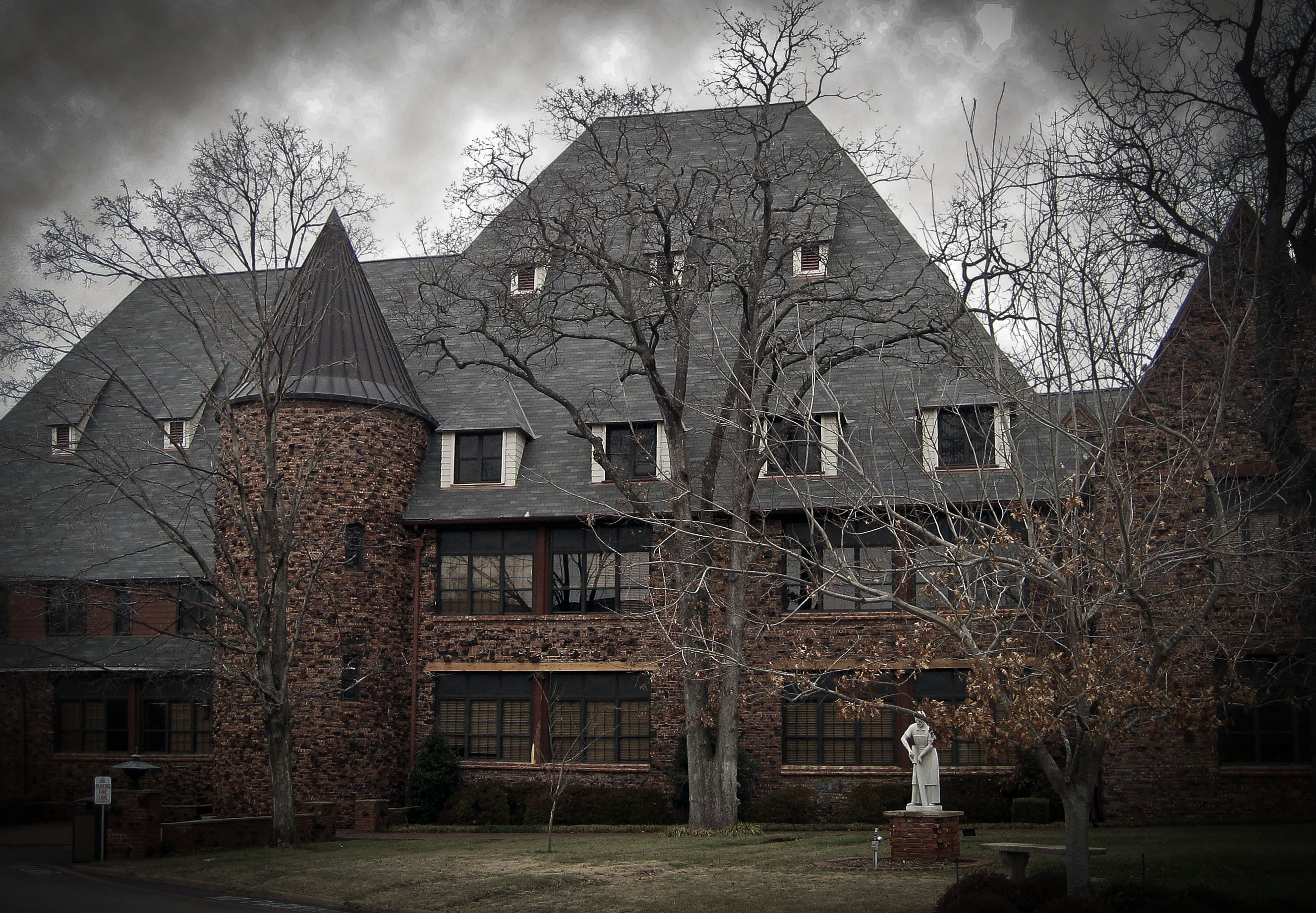 This is a photograph I took in Feb. 2010 of Cascia Hall in Tulsa, setting of the House of Night novel series.